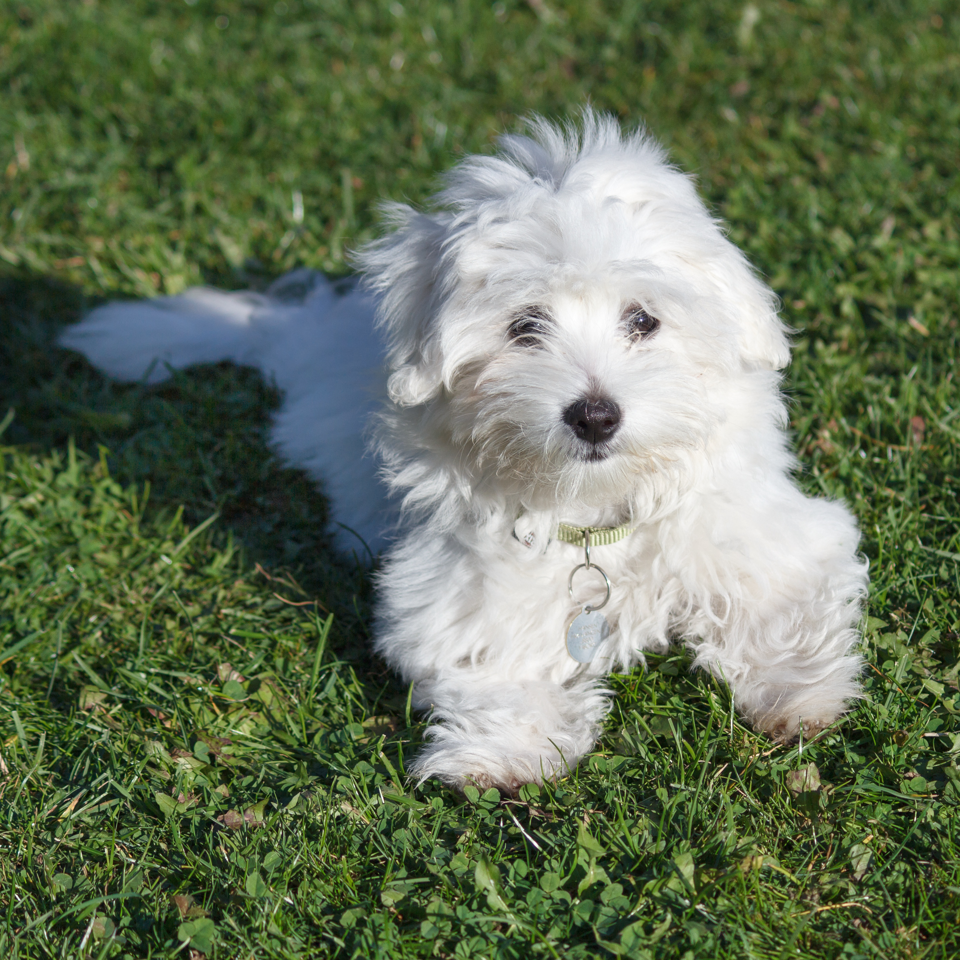 A Coton de Tulear puppy (16.5 weeks old) photographed in a garden in Viborg, Denmark.